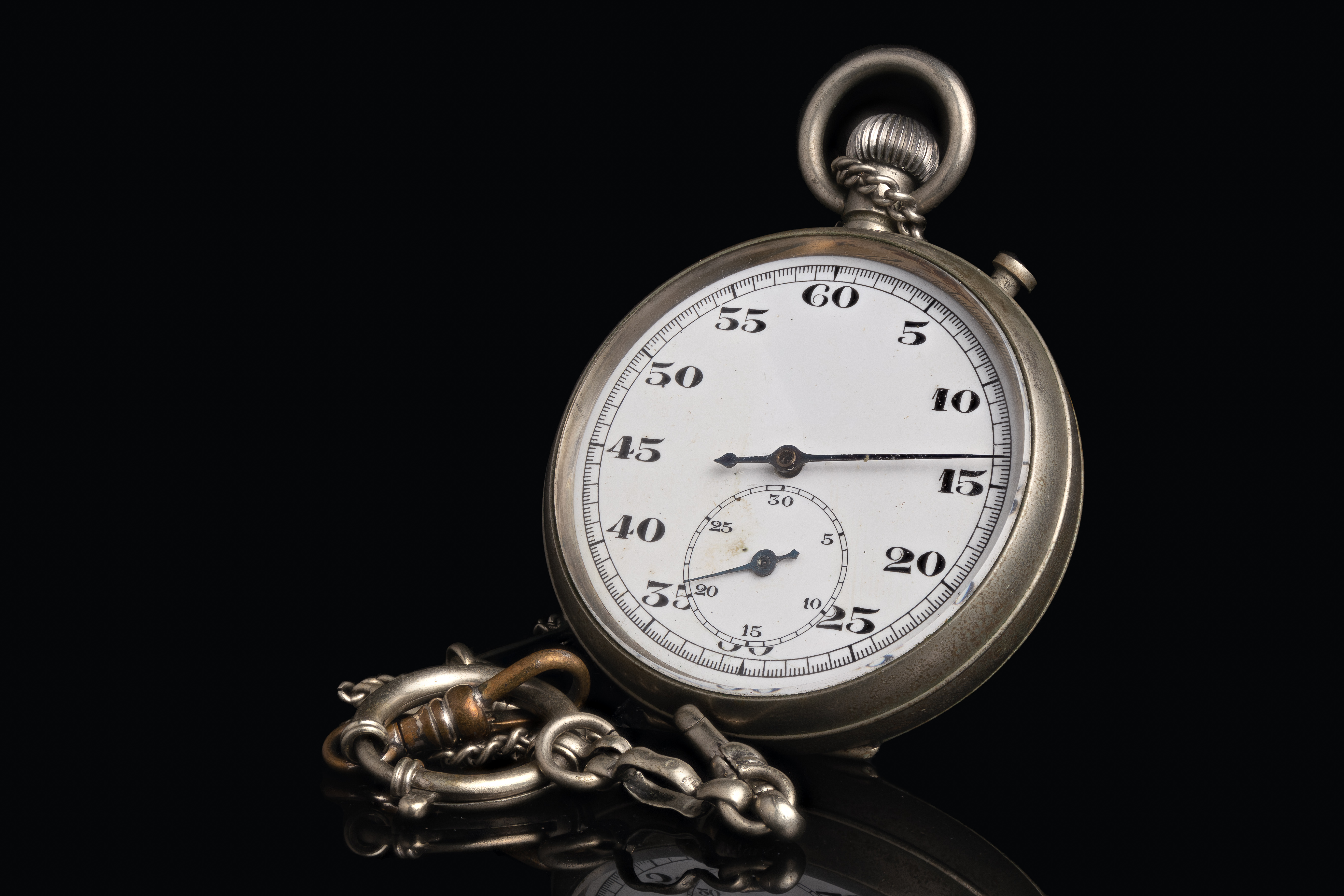 Focus stack of a vintage stopwatch. Focus stack of 25 pictures with Helicon Focus.